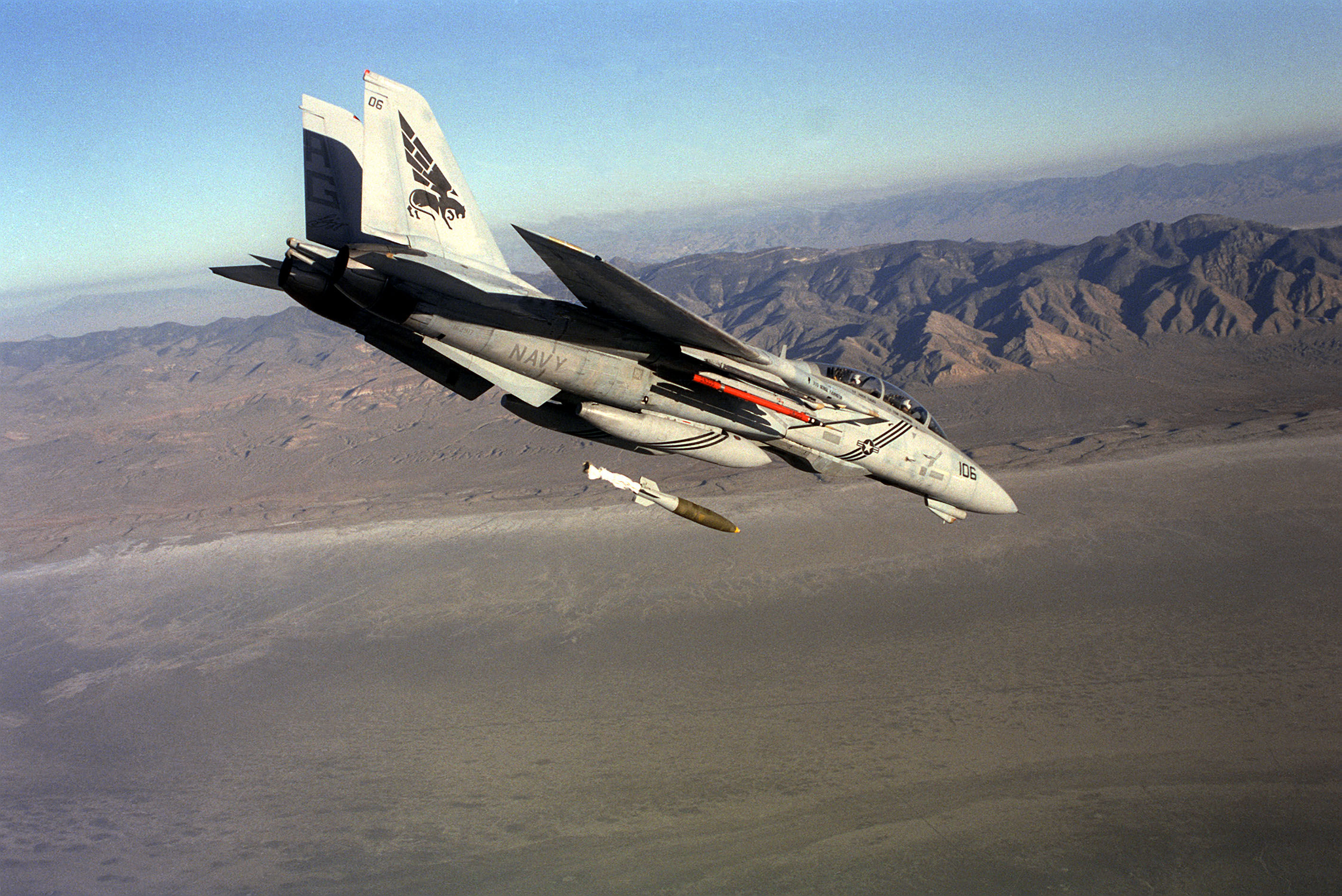 Right side view of a F-14B Tomcat aircraft of Fighter Squadron 143 (VF-143), the Pukin' Dogs, dropping a Mark 83 1,000 pound bomb over the bombing range. The pilot of the aircraft is Lt. Chris Blaschum and the radar Intercept officer (RIO) is Lt. Jack Liles.